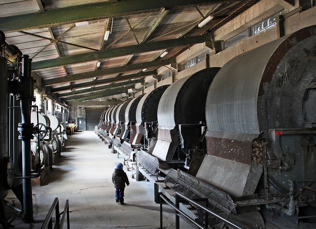 Goslar, Rammelsberg mine, UNESCO World heritage site, ore dressing plant - drum filters.